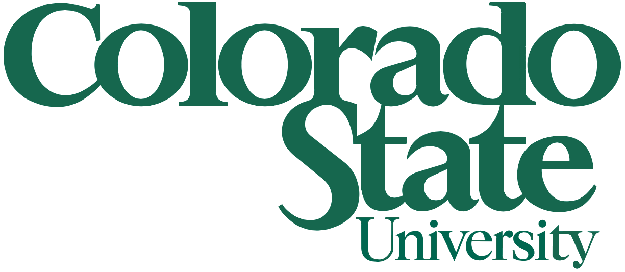 Logo for Colorado State University.